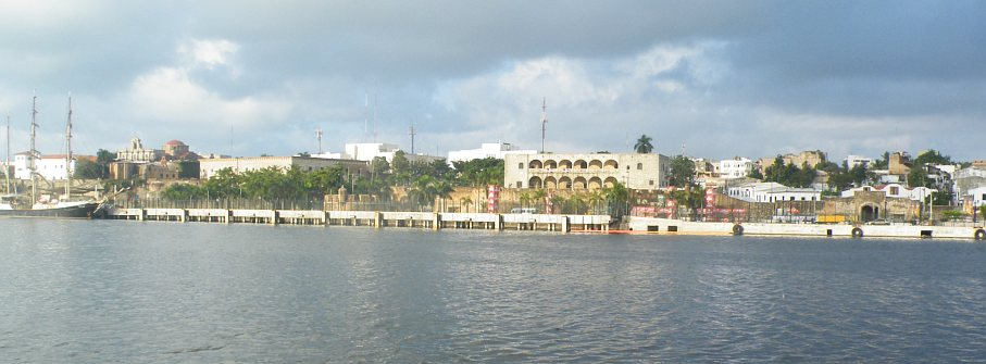 Santo Domingo's Colonial City viewed from across the Ozama river (east bank). Columbus' Alcazar is seen in the middle.